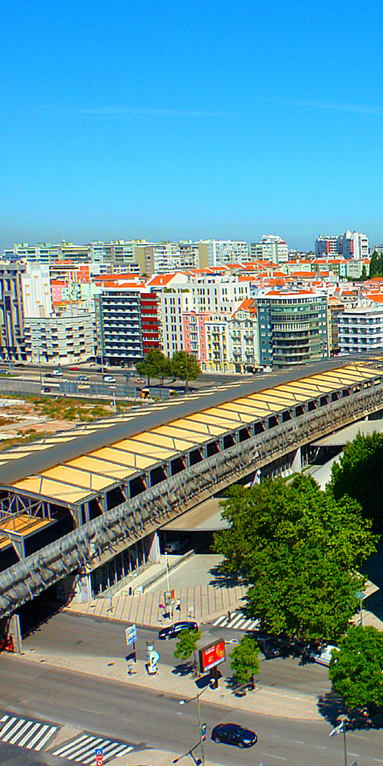 Entrecampos train station, Lisbon